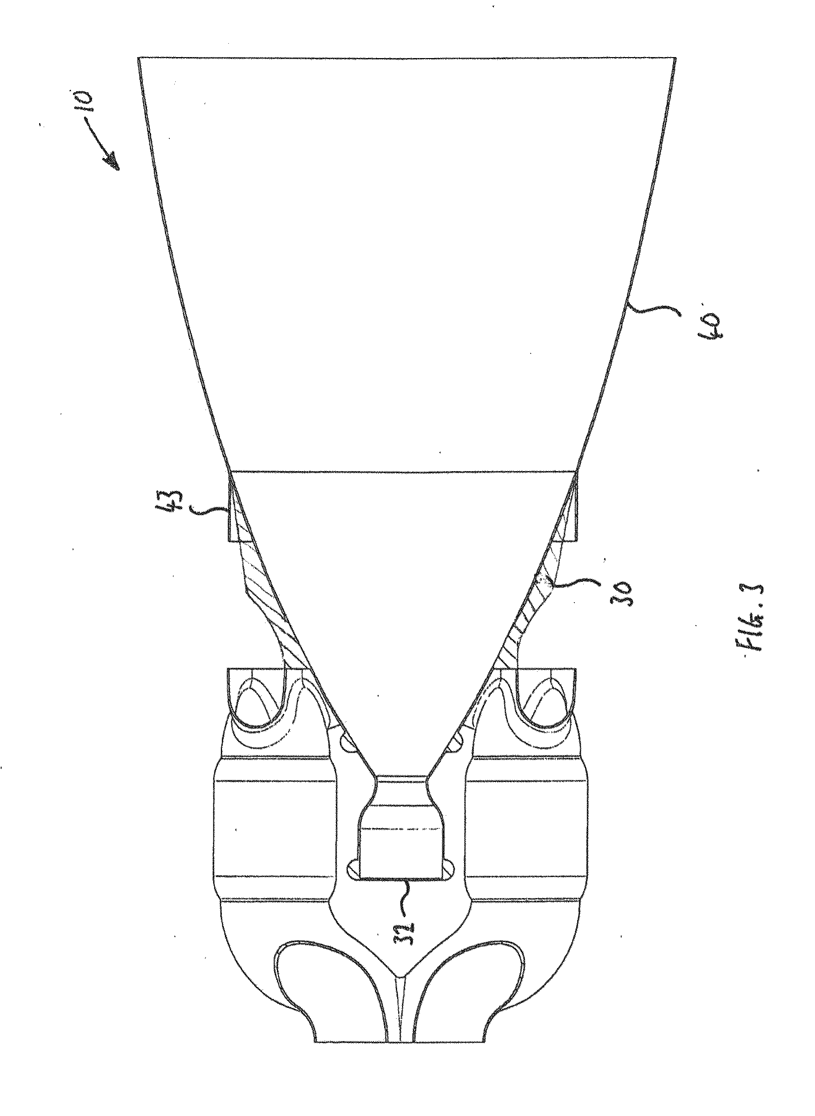 the central rocket combustion chamber is in use with the bell moved forwards to create a larger, more efficient nozzle for high altitude flight.